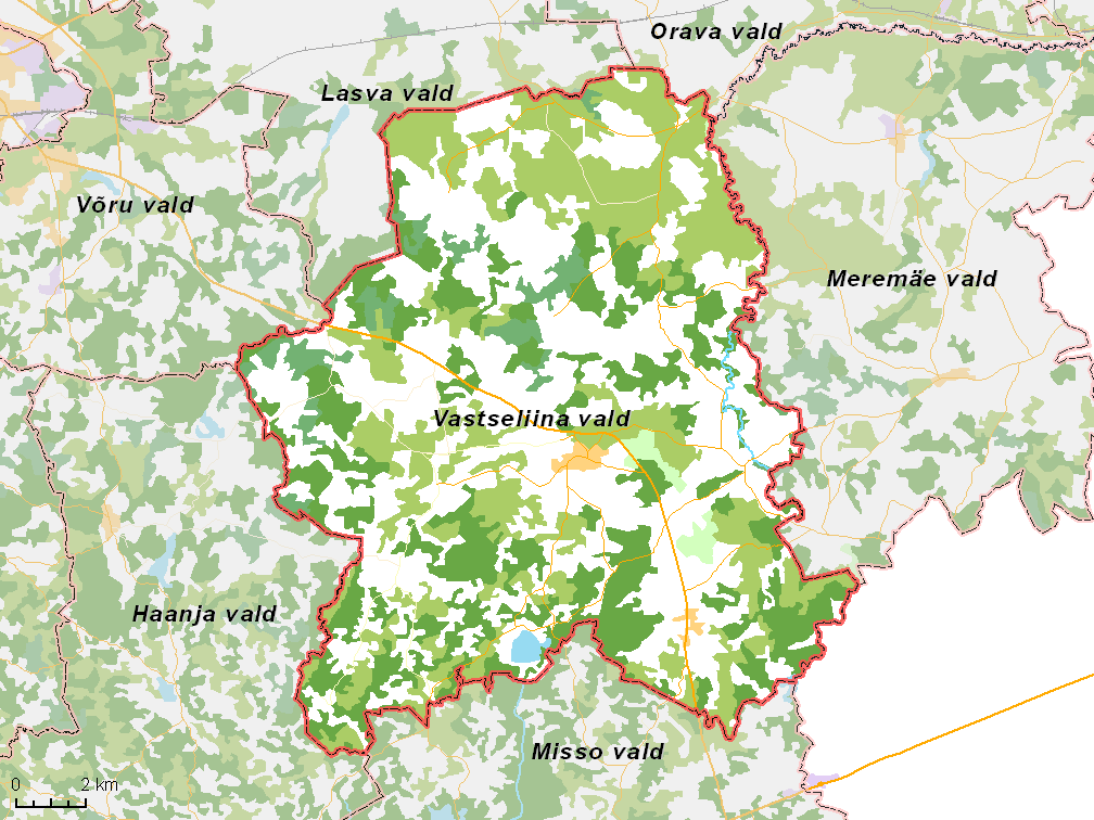 Map of municipality in Estonia